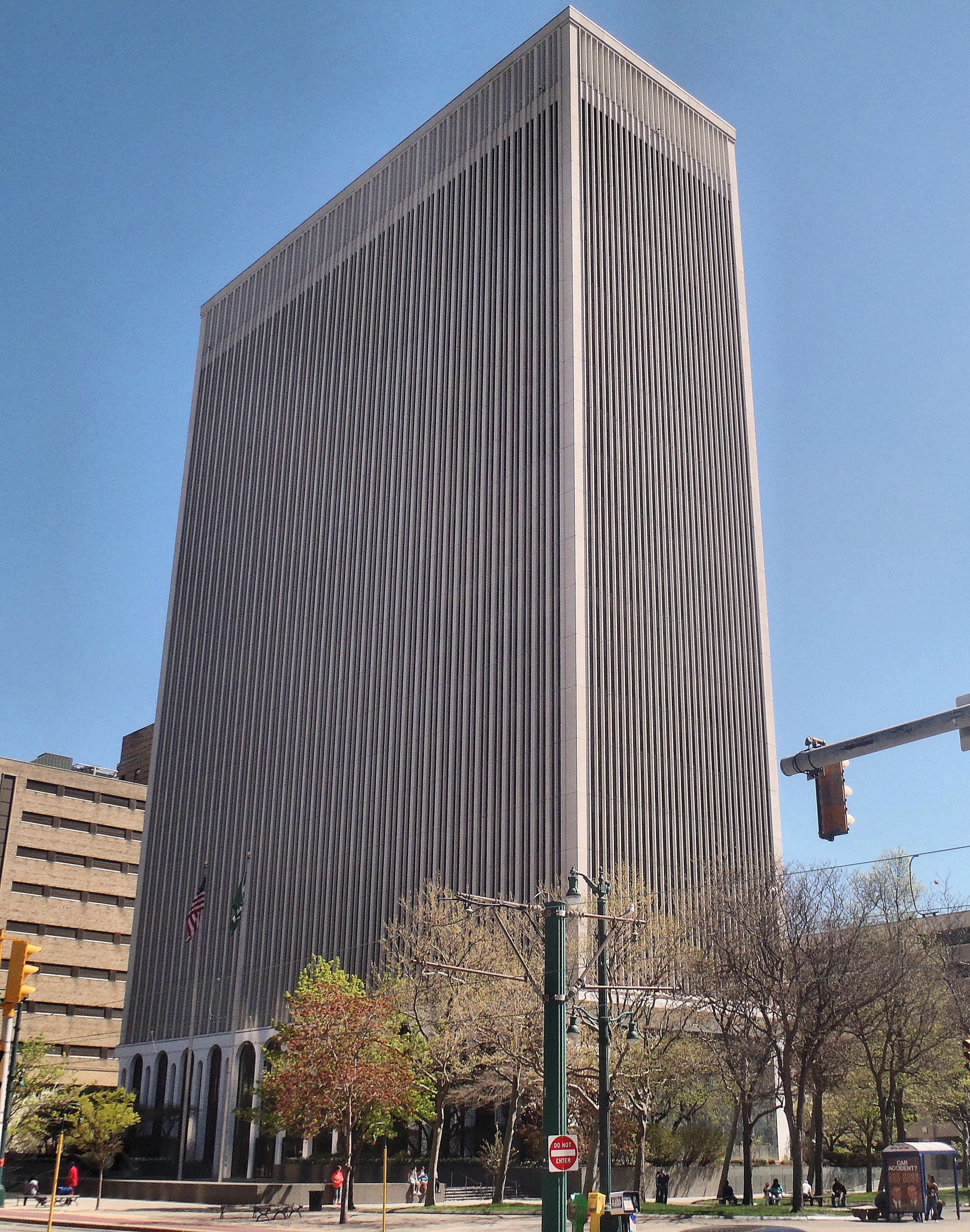 One M&T Plaza, [345 Main Street] Buffalo, NY 14202